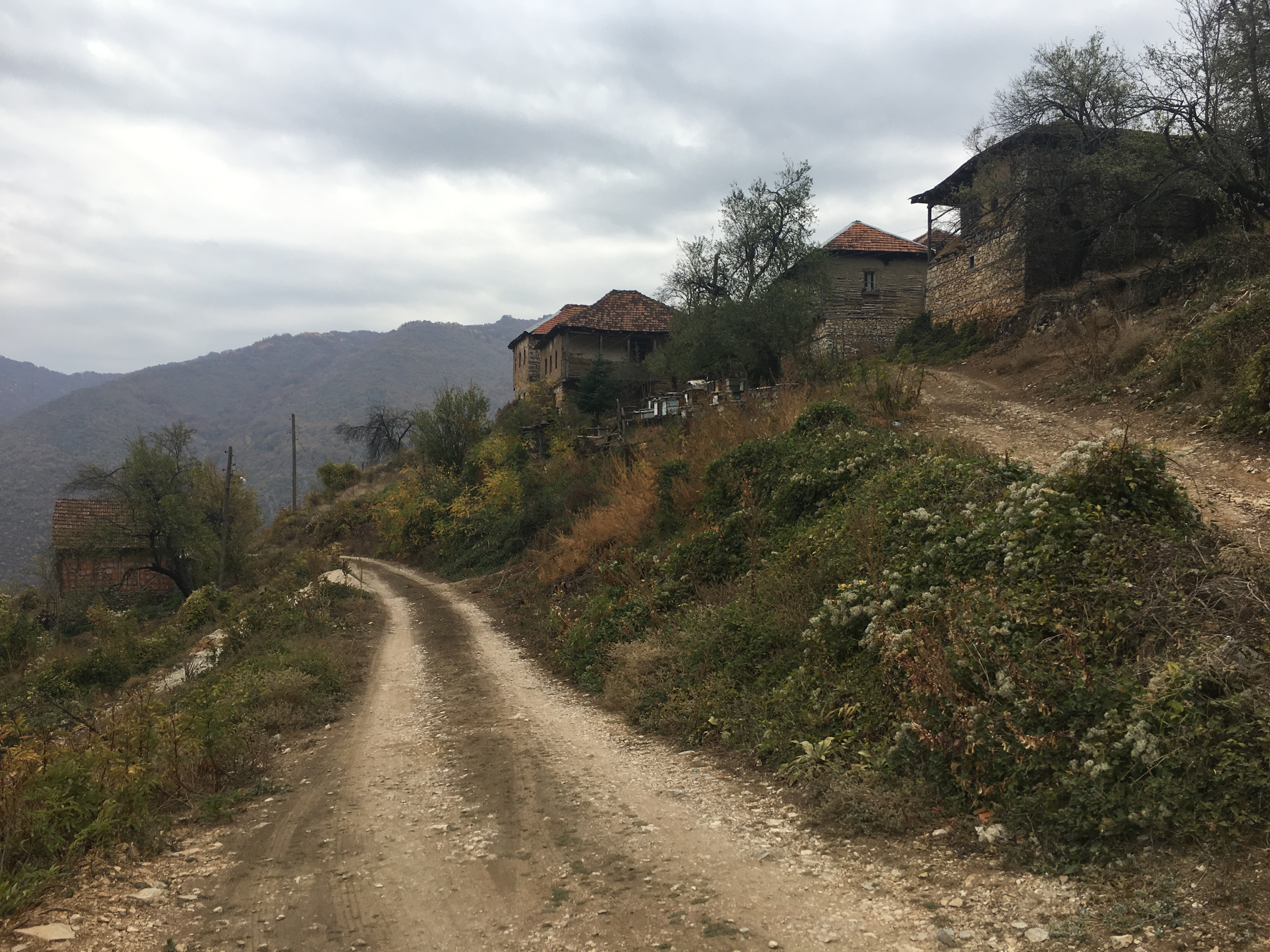 Wikiexpedition to Kopačka